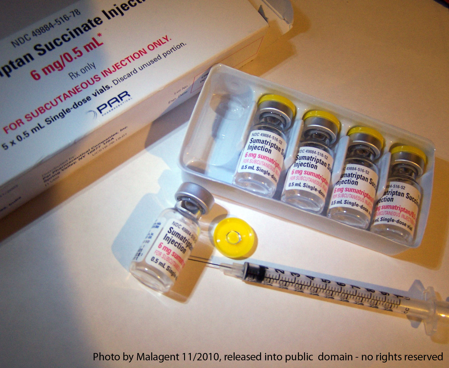 Generic Sumatriptan Succinate single dose vials, 0.5mL (6mg), with syringe.